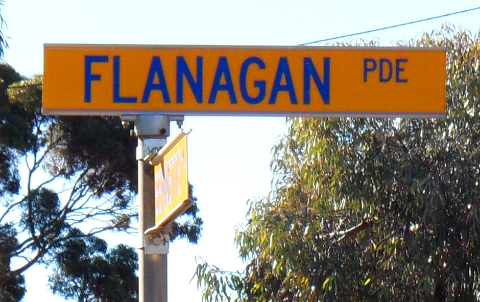 Street named in honour of Thomas Flanagan (1832-1899)